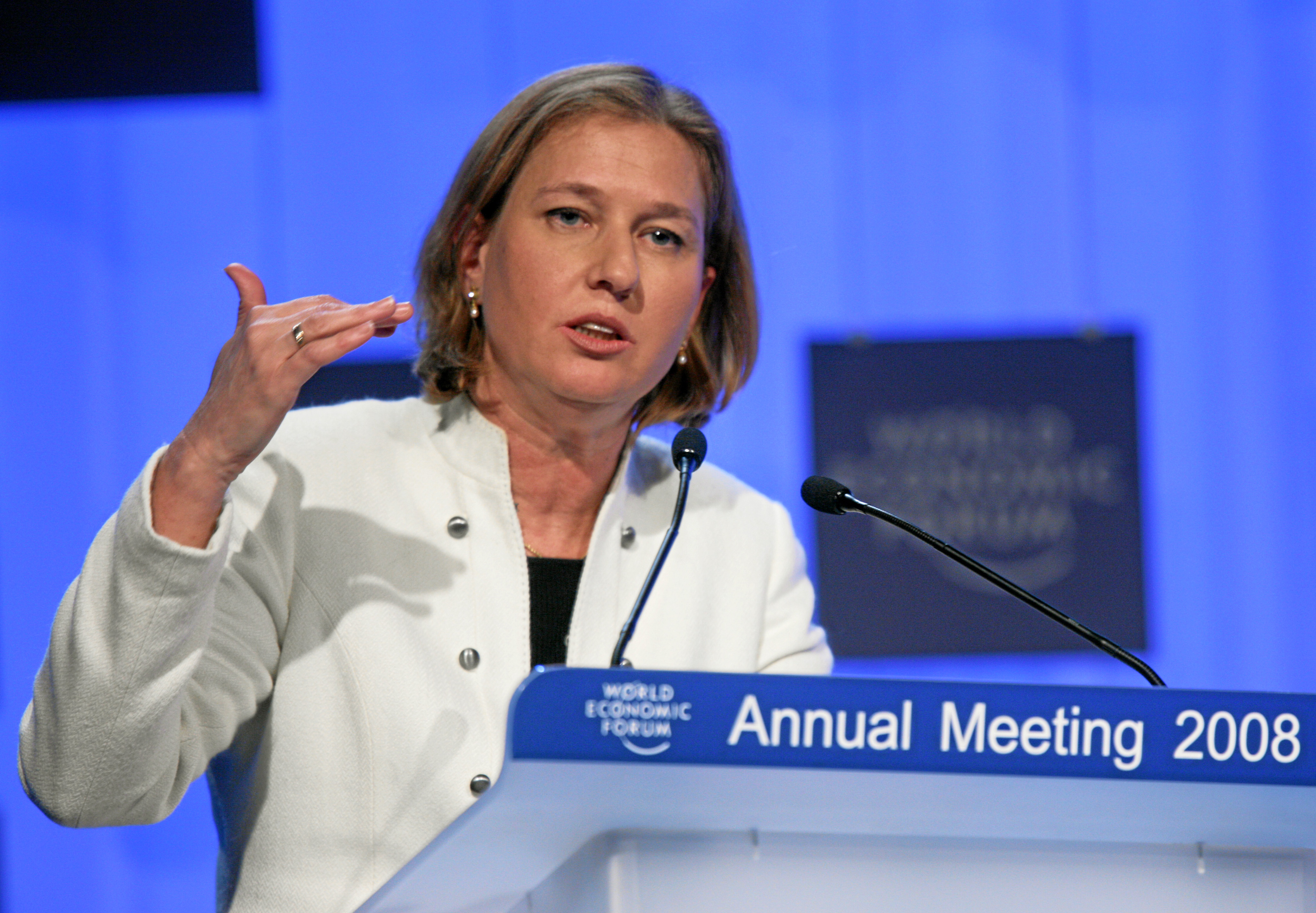 DAVOS/SWITZERLAND, 24JAN08 - Tzipi Livni, Vice-Prime Minister and Minister of Foreign Affairs of Israel, addresses the audience during the session 'Middle East: After Annapolis, After Paris' at the Annual Meeting 2008 of the World Economic Forum in Davos, Switzerland, January 24, 2008.